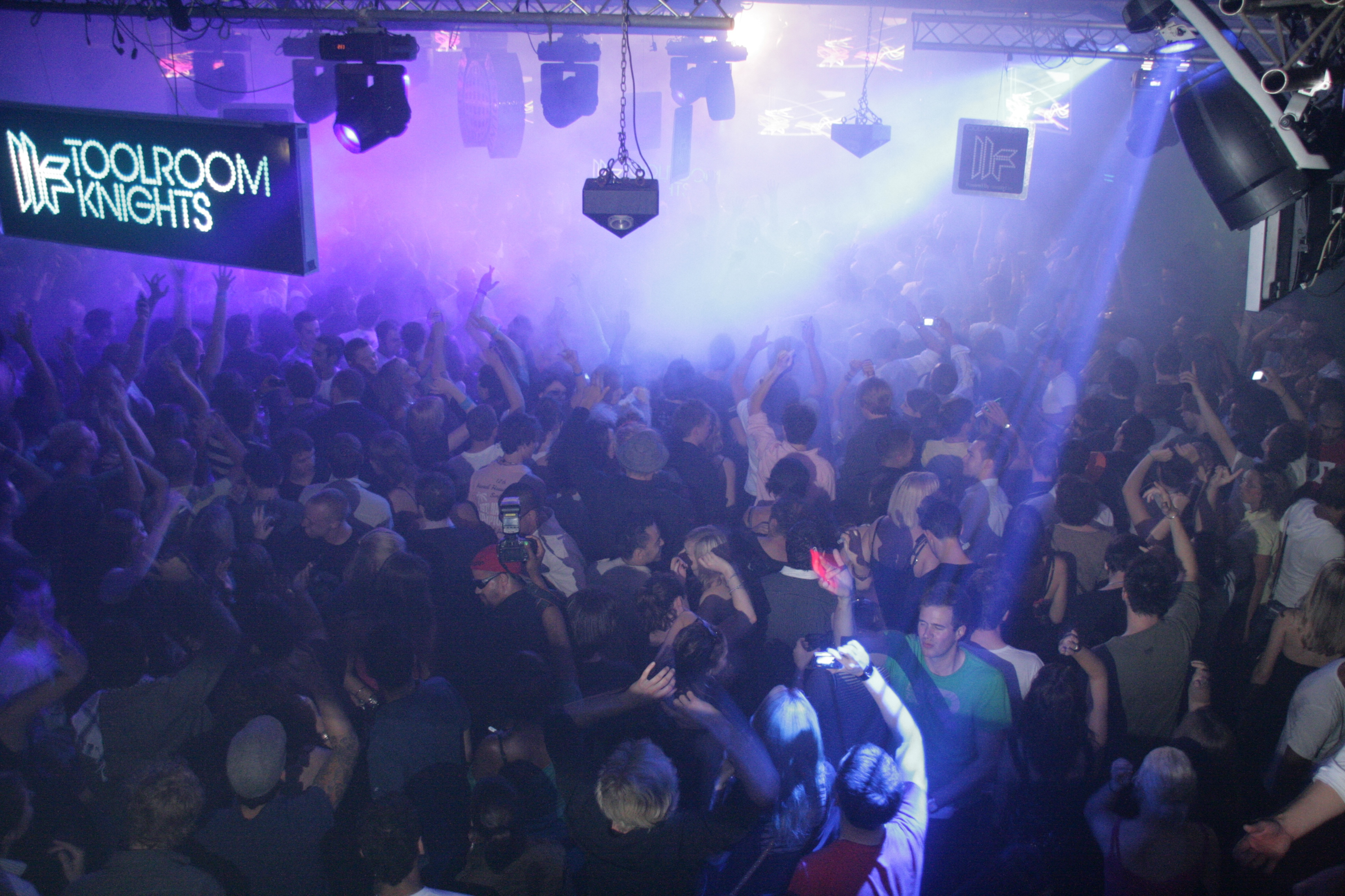 Toolroom Knights @ Ministry of Sound in London